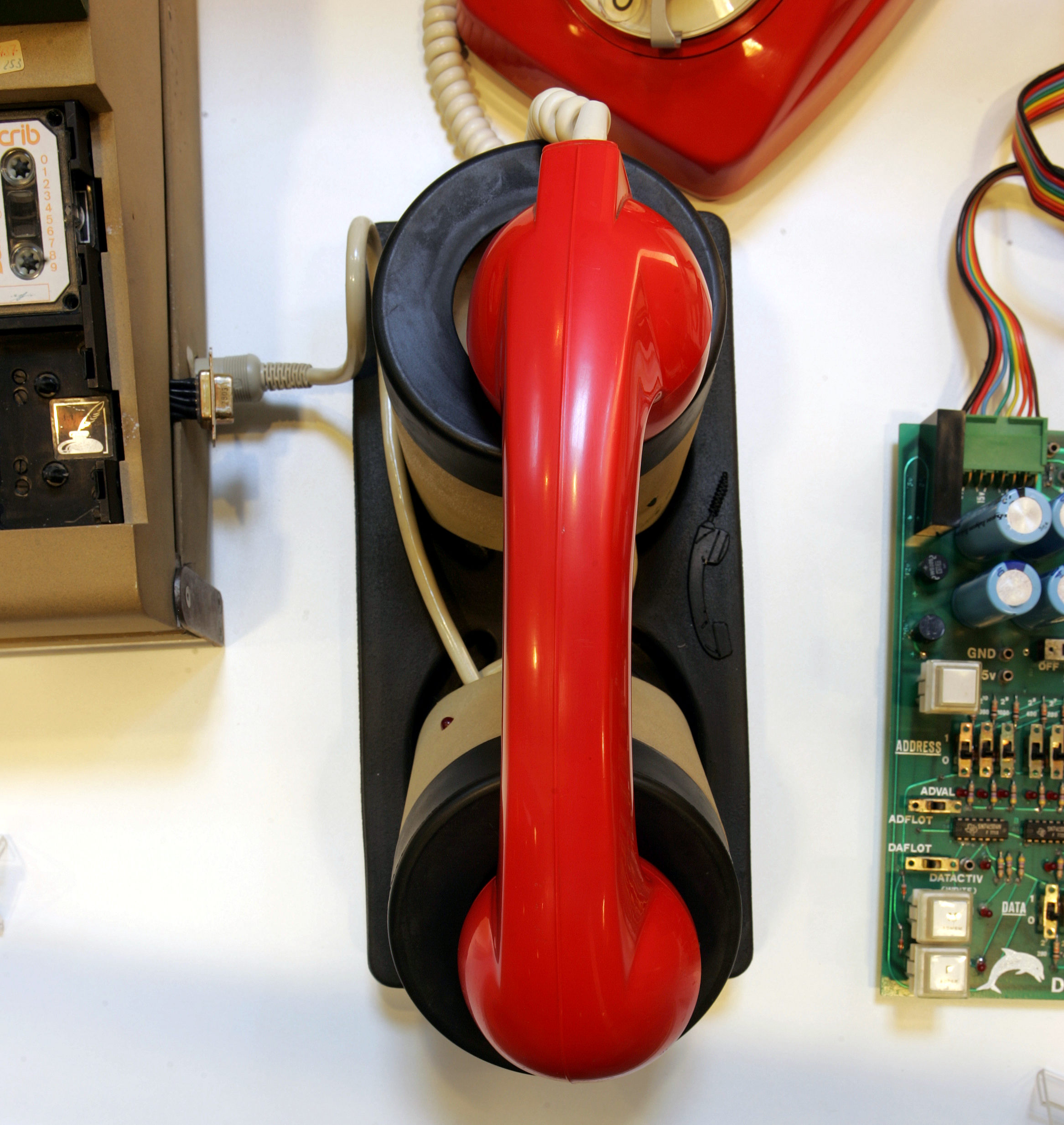 An acoustic coupler attached to a telephone